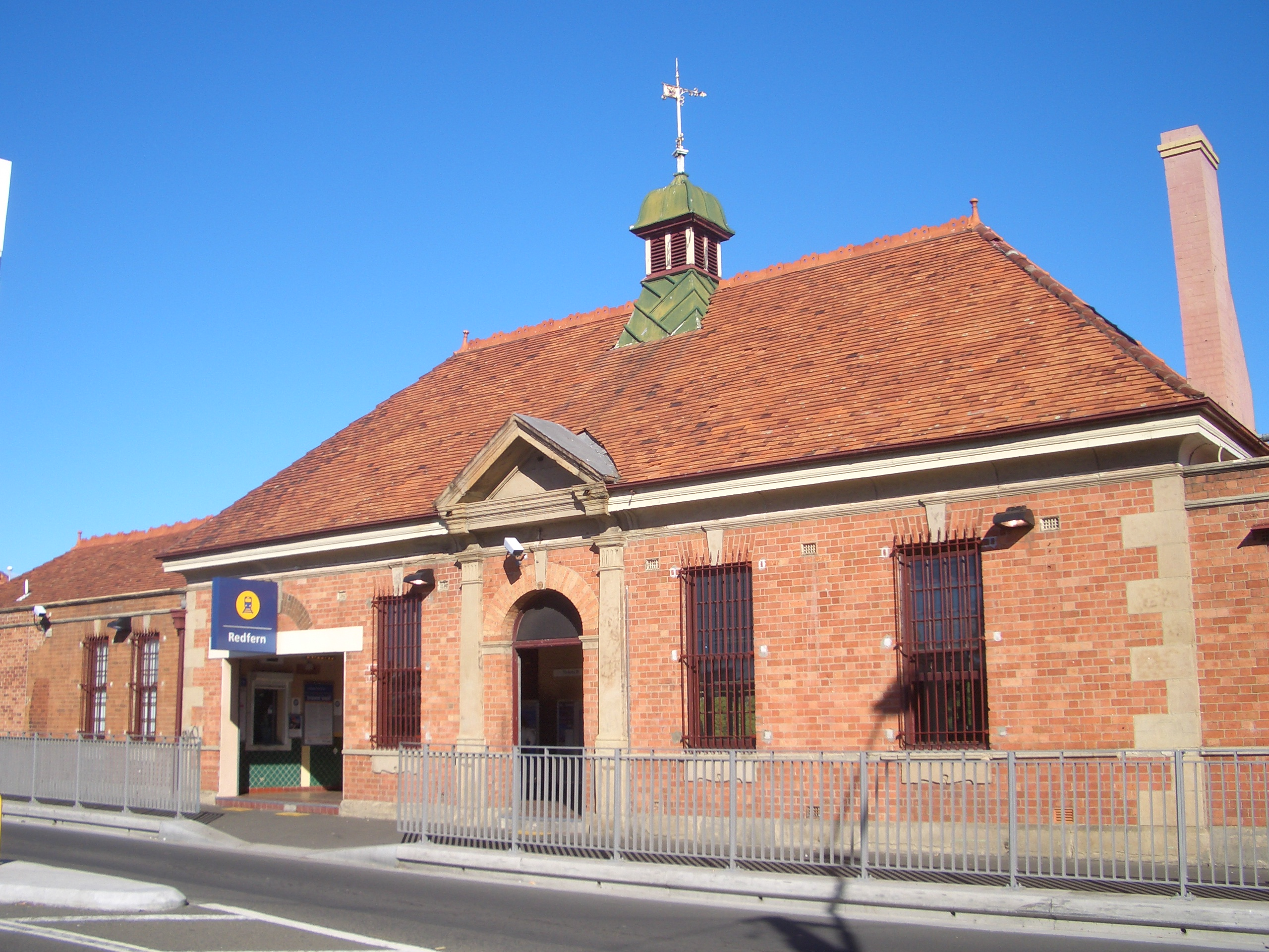 Redfern Railway Station, Sydney, entrance on Lawson Street